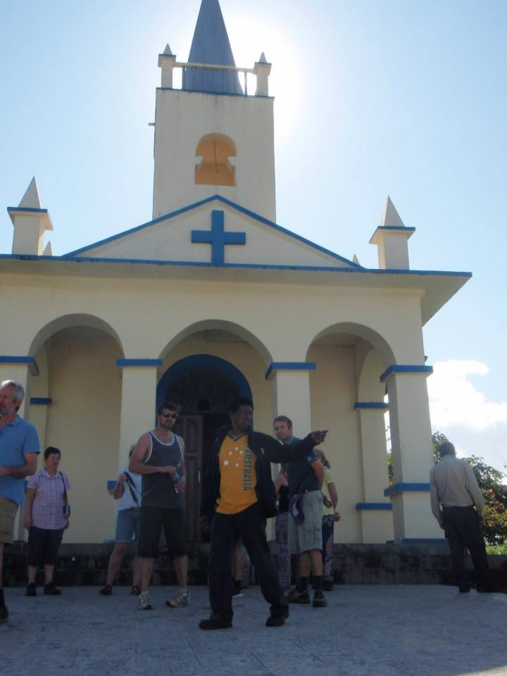 Shrine of Our Lady of Aitara